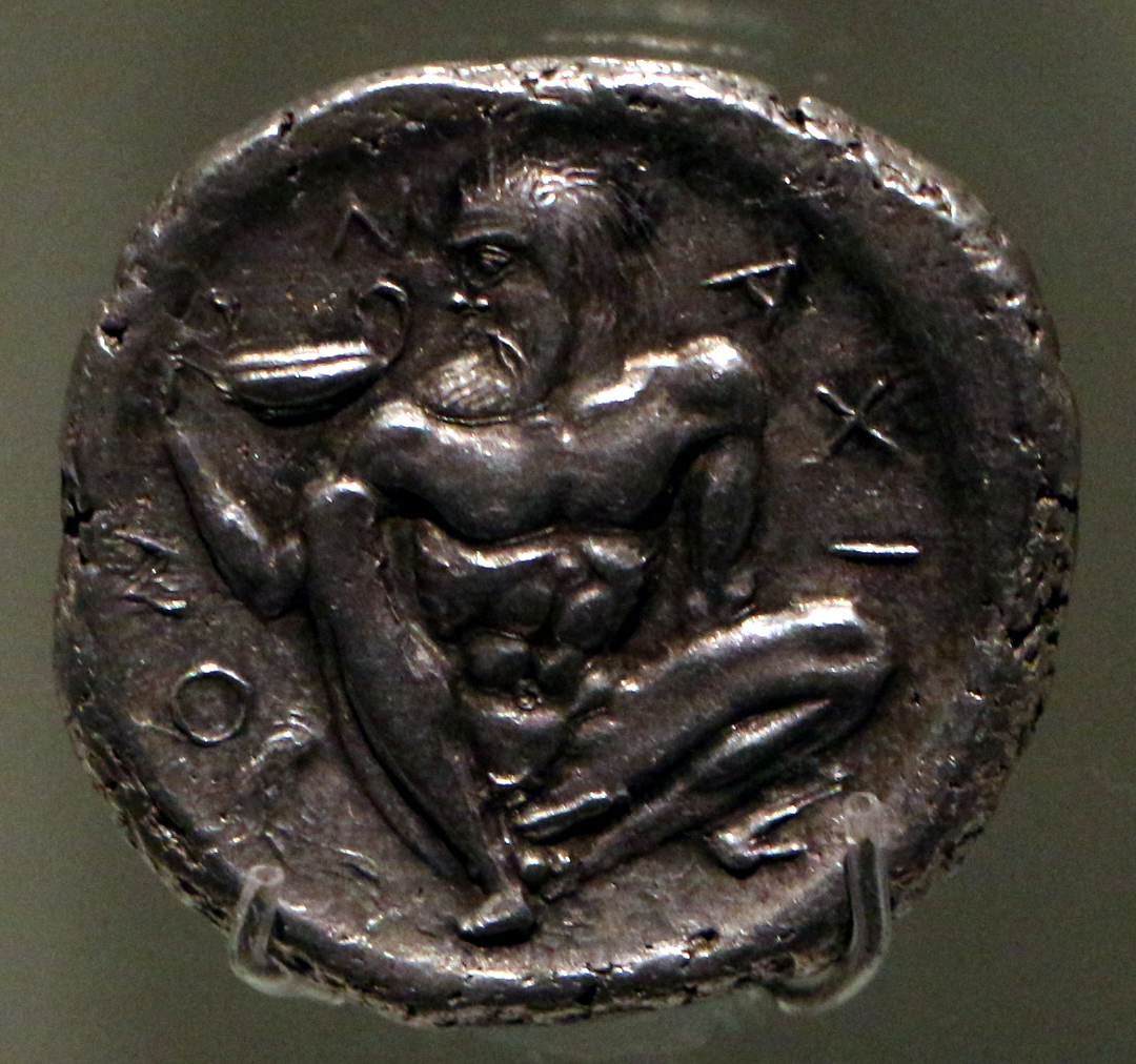 Ancient Greek coins in the Calouste Gulbenkian Museum